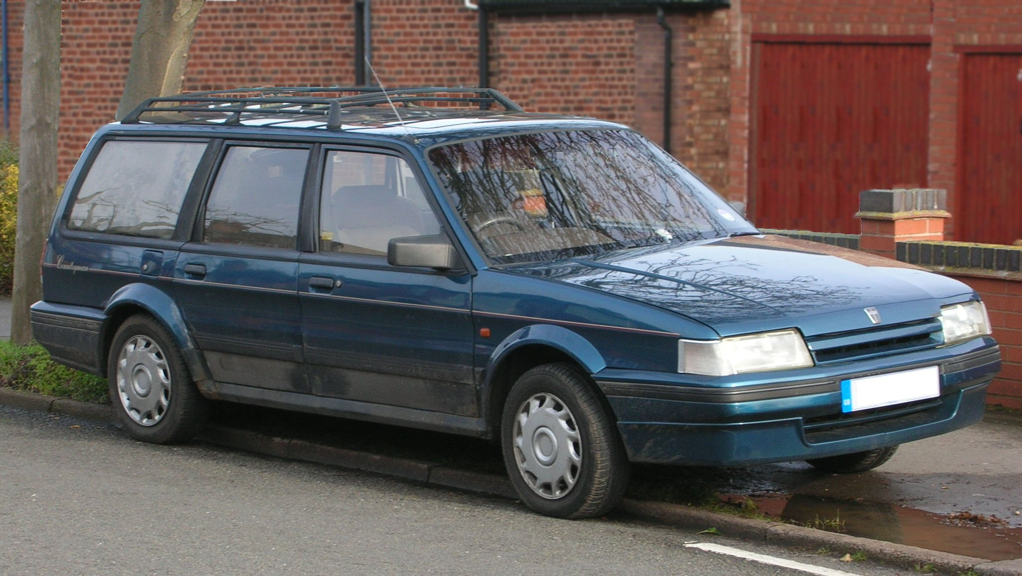 A 1993 Rover Montego Estate 2.0i Countryman